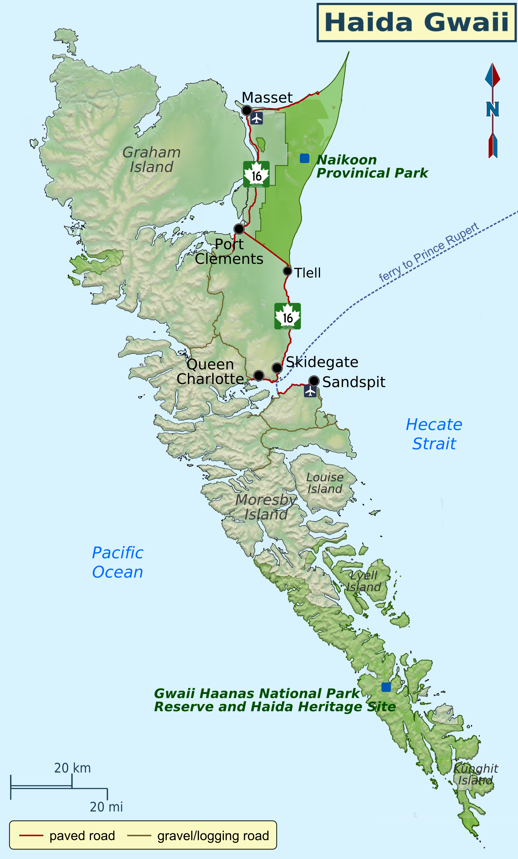 Wikivoyage-style map of Haida Gwaii (English version) Map is equirectangular projection, N/S stretching 170%. Geographic limits of the map: N 54.45 E -130.8 S 51.8 W -133.4